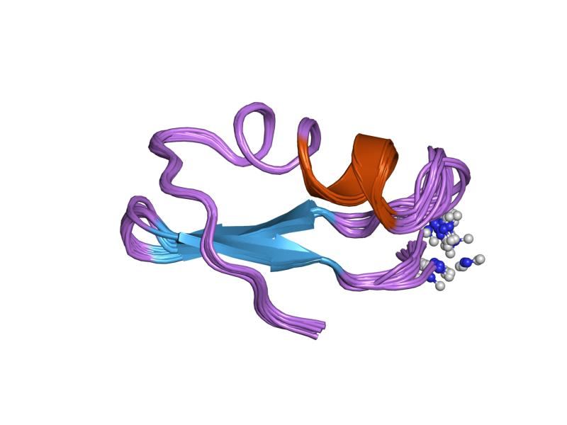 Cartoon representation of the molecular structure of protein registered with 1sxm code.